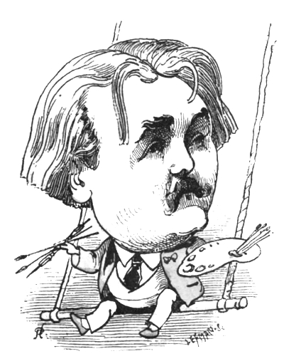 French painter and illustrator Gustave Doré (1832-1883) by Georges Lafosse (1844-1880)